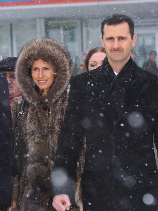 Bashar and Asmaa al-Assad in Moscow